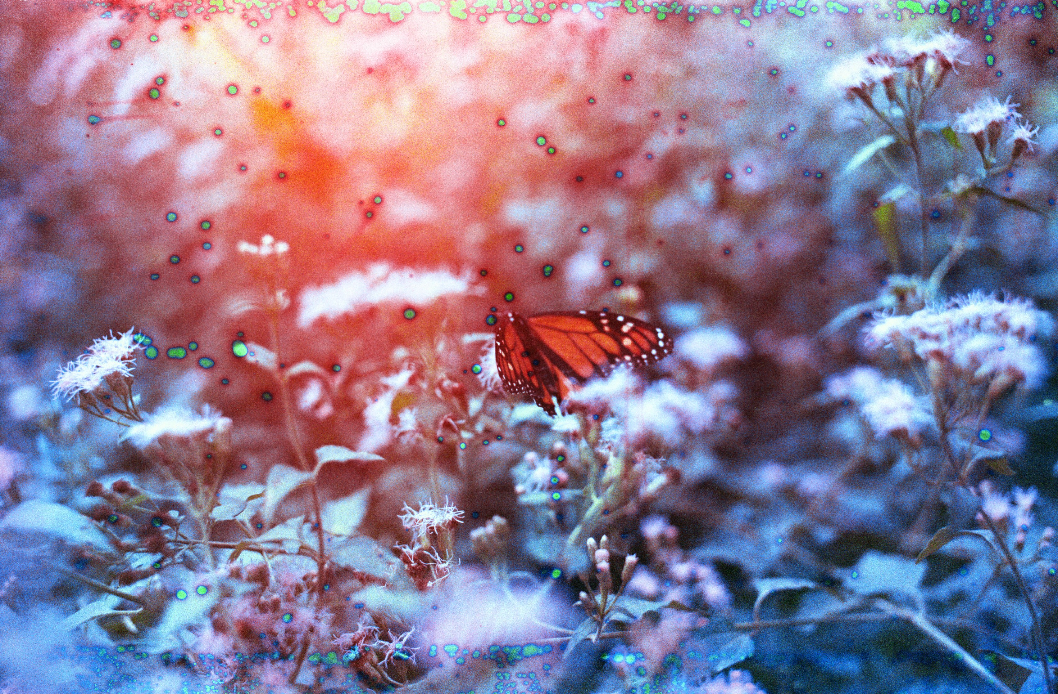 This pollinating butterfly was photographed in Austin, Texas, in the Fall of 2019 on 35mm photo film that I treated with light and soaked in natural spring water from Barton Springs — an aquifer about 100 million years old. The film was altered prior to shooting and although I know how the colors and pattern of the emulsion will be altered, I have no control over where the patterns and coloring will lay. Therefore, planning the composition of the subject I’m photographing to interact with the film is nearly pointless — so instead I shoot with the intent of capturing the truth. I believe this leads to images such as this, where the subject and altered film align symbiotically to tell a story. What is the story of this photograph? With the population of butterflies, and other pollinators in decline, we’re forced to wonder: is our human touch — our impact — our choices, the cause? Is the temperature of our planet altered by our influence, like the way this photo film was changed by the treatments I used on it?